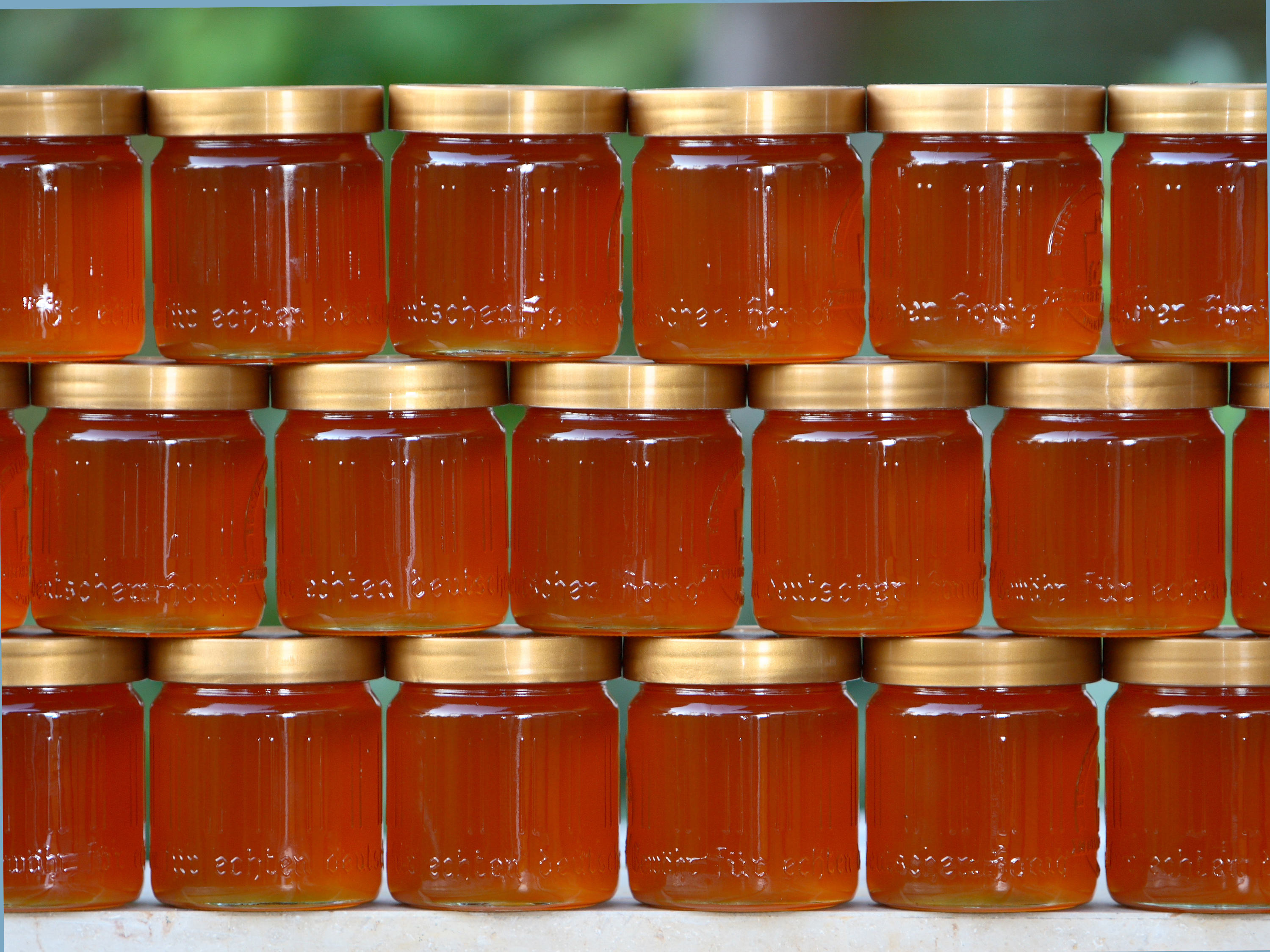 After harvest - jars of glass filled with honey